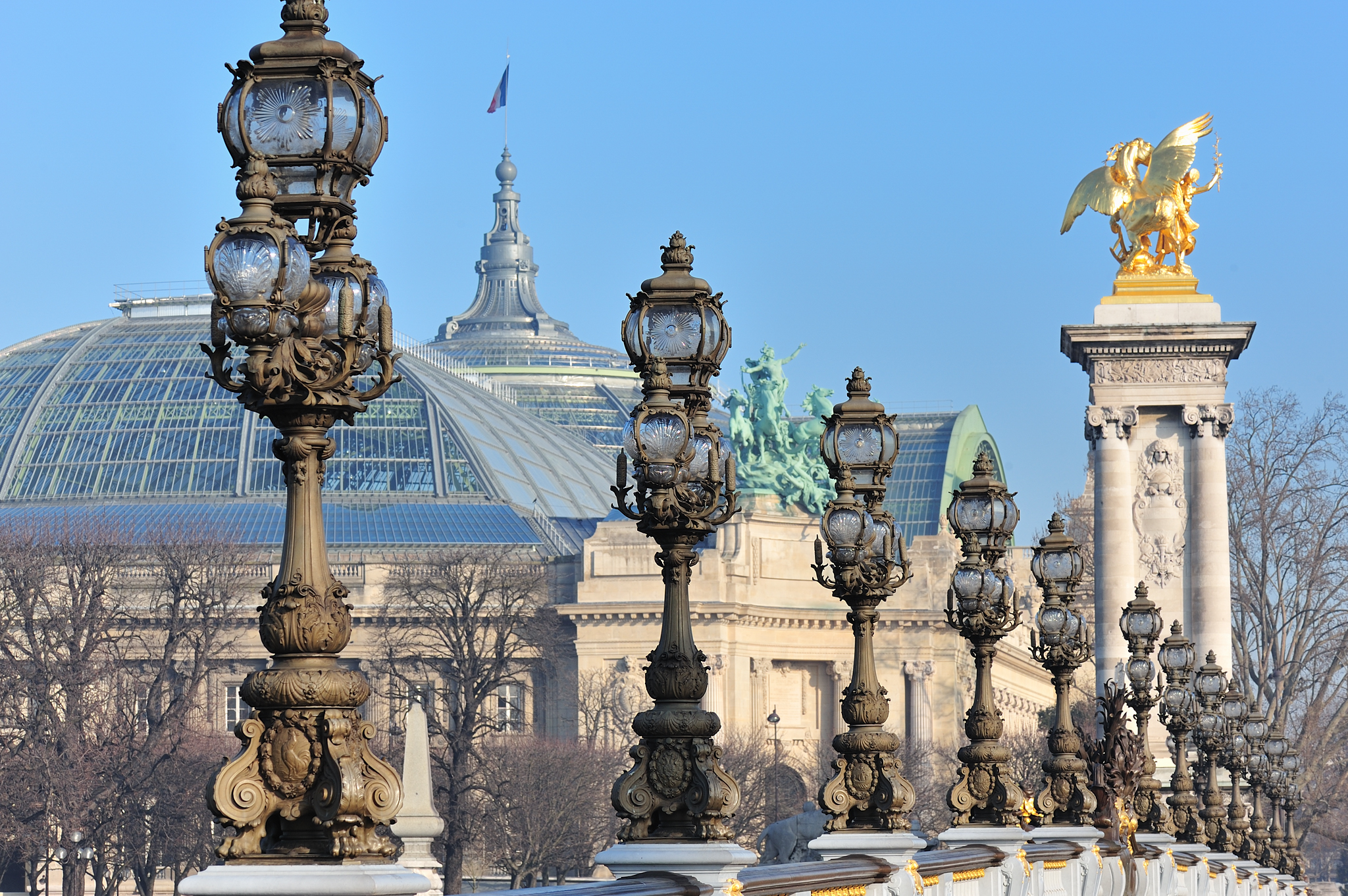 The Grand Palais as seen from the Alexandre III bridge, in Paris, France.